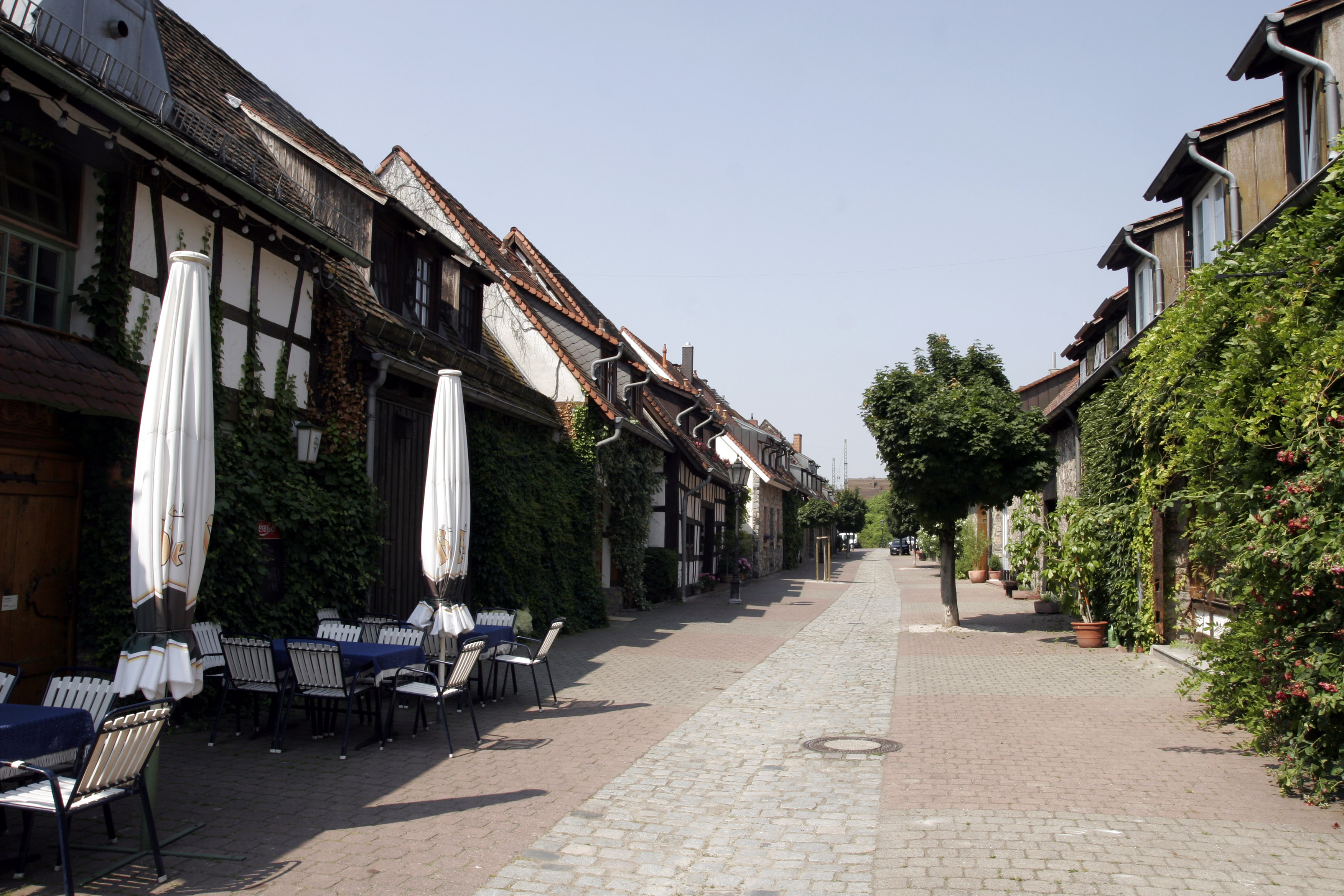 The Scheuergasse in Zwingenberg (Bergstrasse) in Hesse, Germany